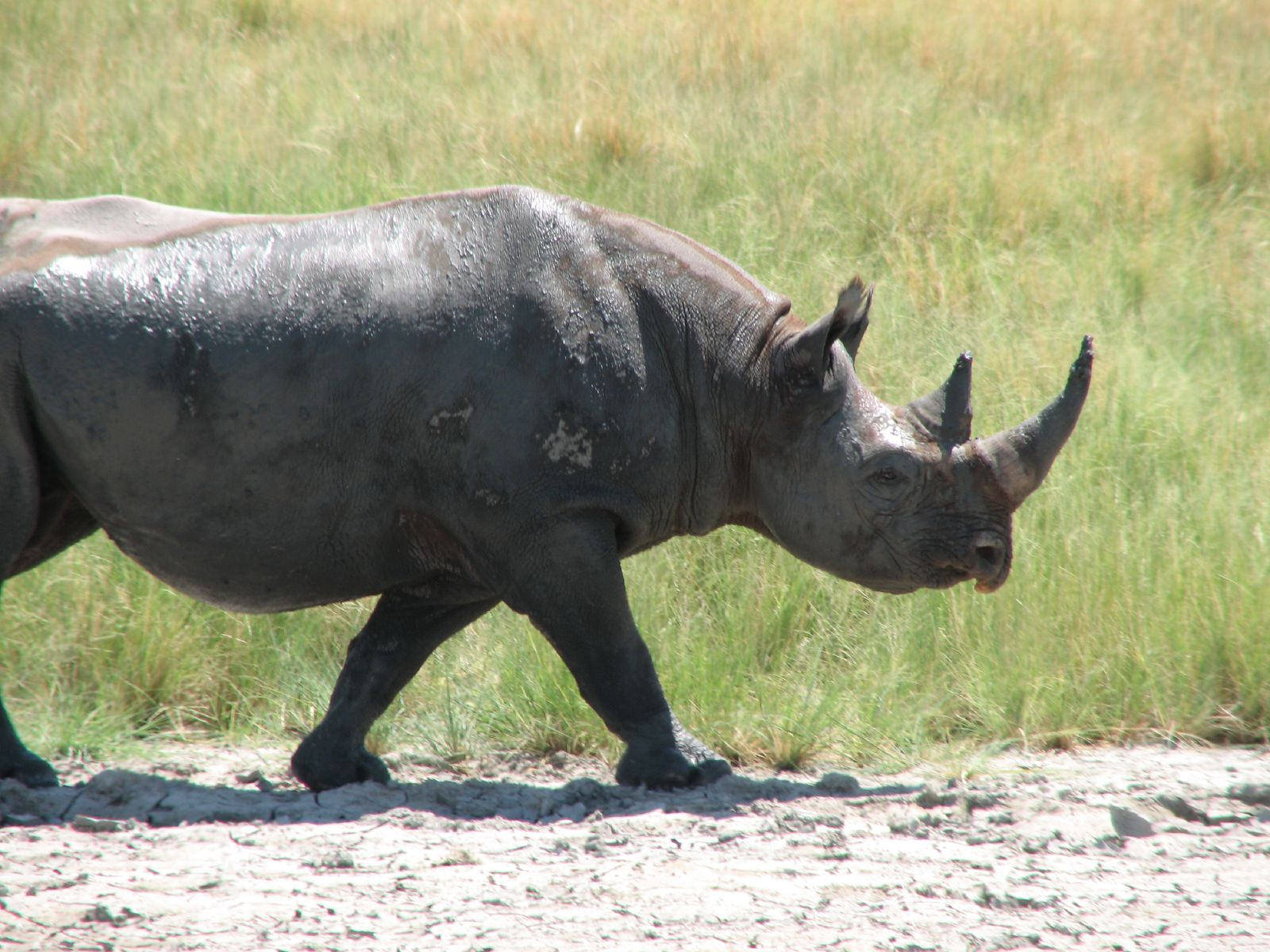 Rhinos always look a bit sad to me. This shot shows the narrow lip that tells the Black Rhino apart from the White.